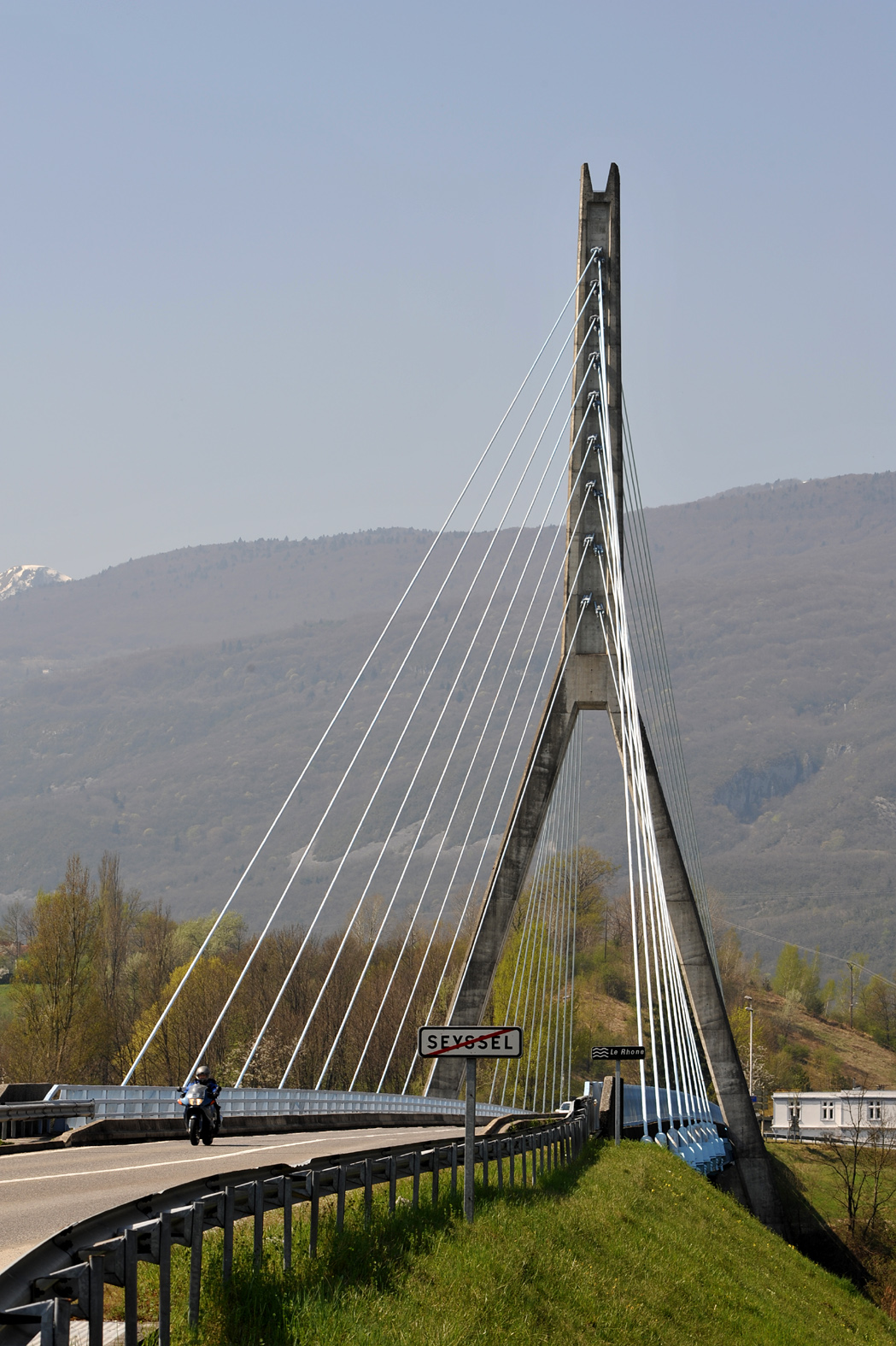 Seyssel bridge; Haute-Savoie, France.